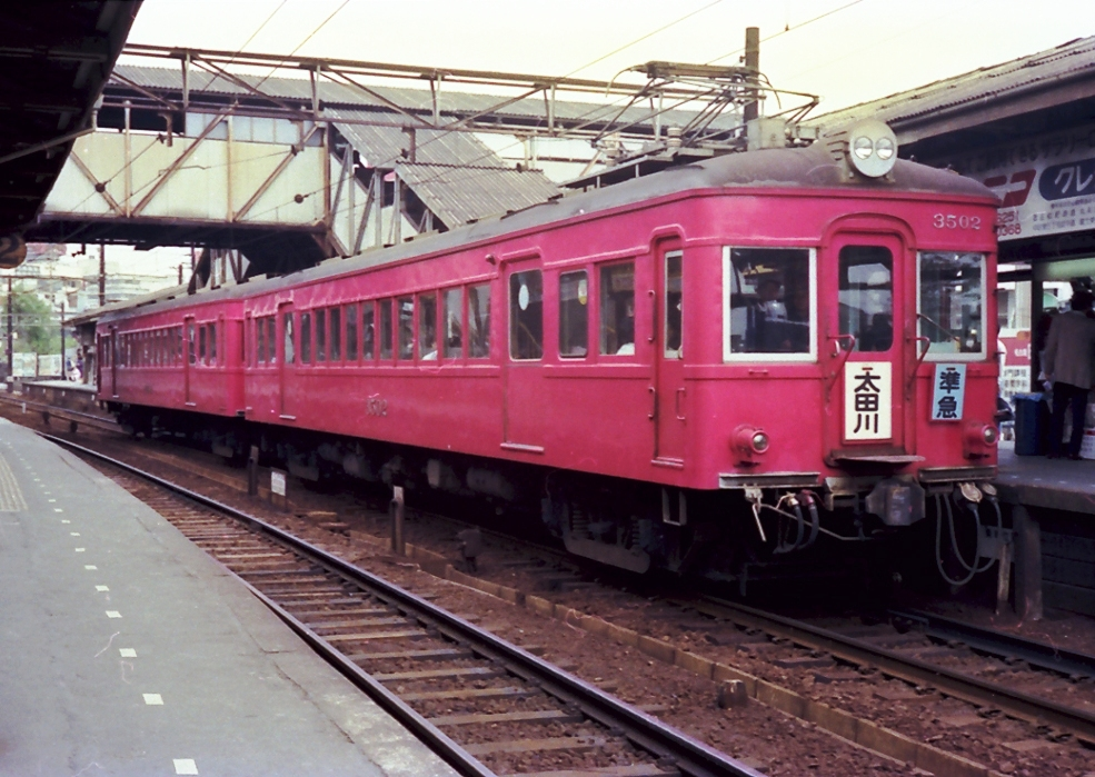 Meitetsu 3500 series EMU 1st generation at Kanayamabashi Station